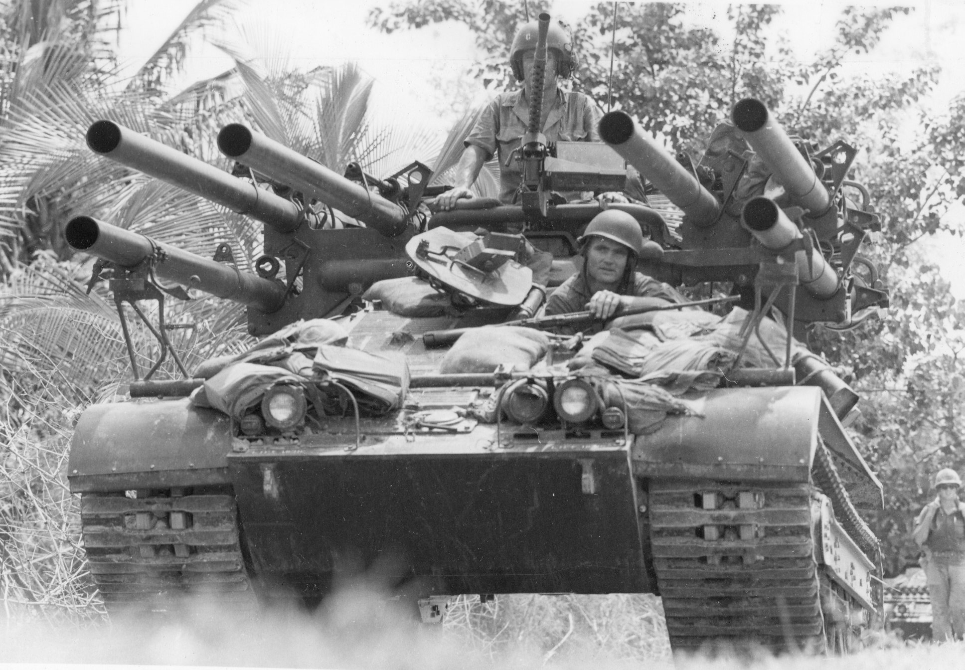 Frontal view of the M50 Ontos and its 2 Marine Crew during Operation Franklin. The Ontos is accompanying 1st and 2d Battalion, 7th Marines in the Quang Ngai Province in June of 1966. From the 1st Marine Division, Press Releases and Photographs: 1966-1971 Collection (COLL/4932), United States Marine Corps Archives & Special Collections.